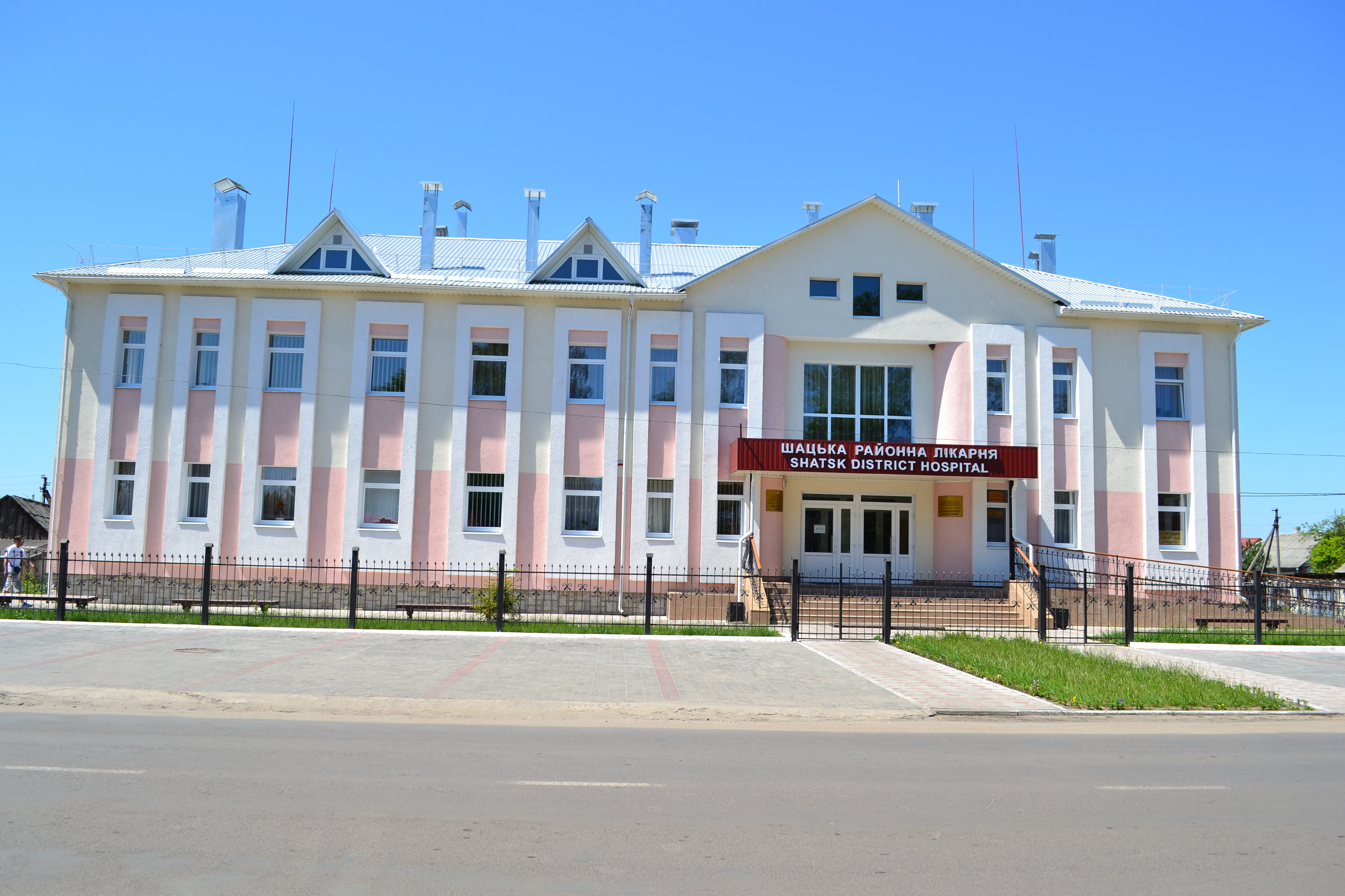 Shatsk District Hospital, Ukraine